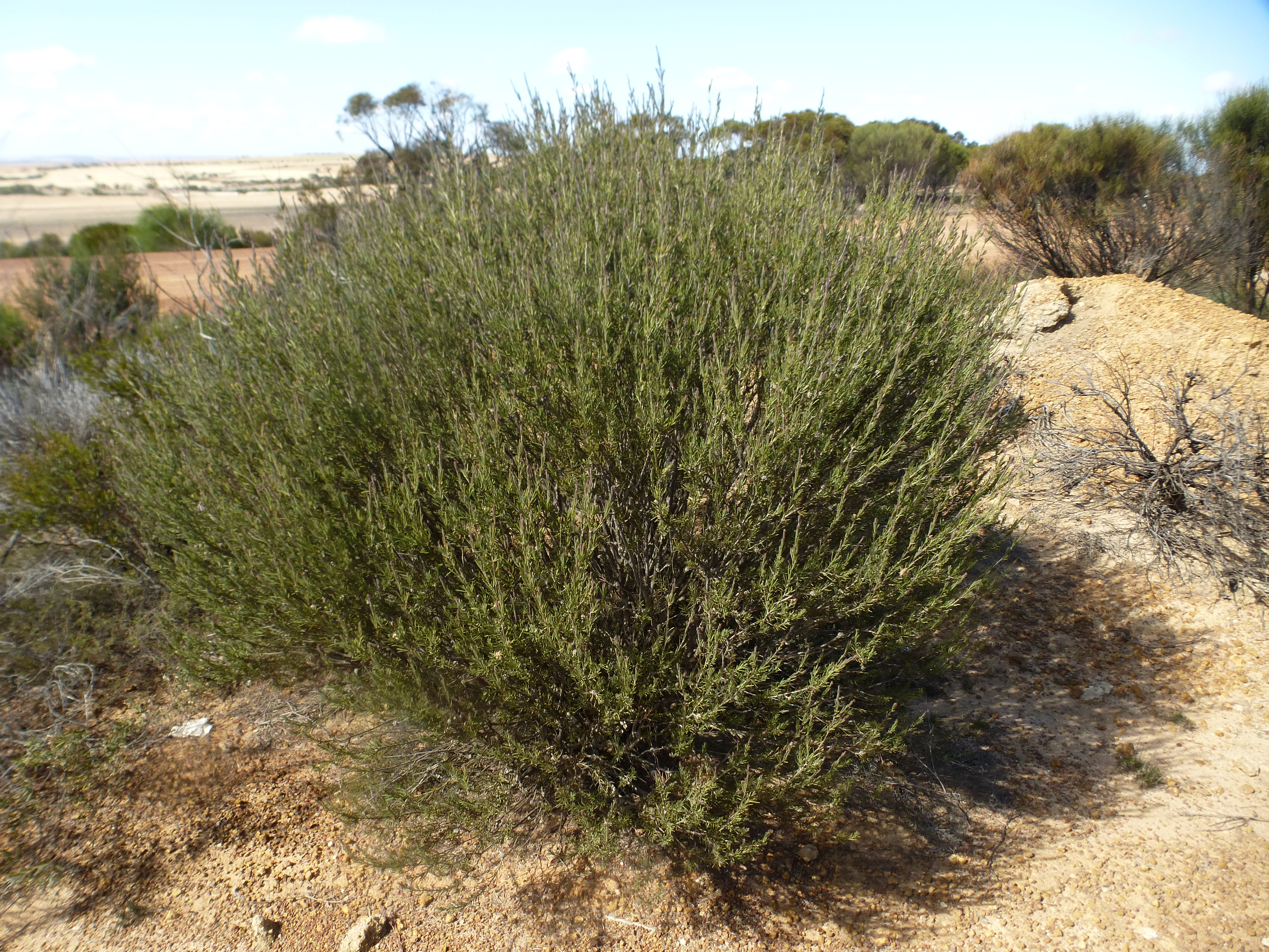 Melaleuca condylosa at the type location, on Bendering Reserve (Whyte) Road